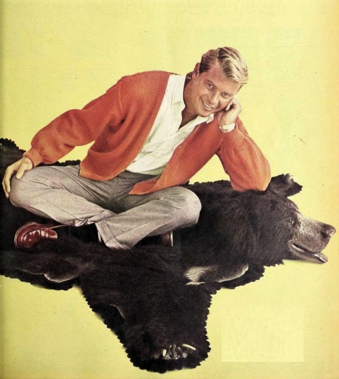 Troy Donahue photographed by Frank Bez, 1961